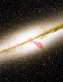 A close-up of the HST image, with another red overlay from a higher-resolution, 3-centimeter VLA image, showing the inner portion of the jet.